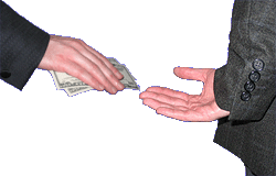 Bribe